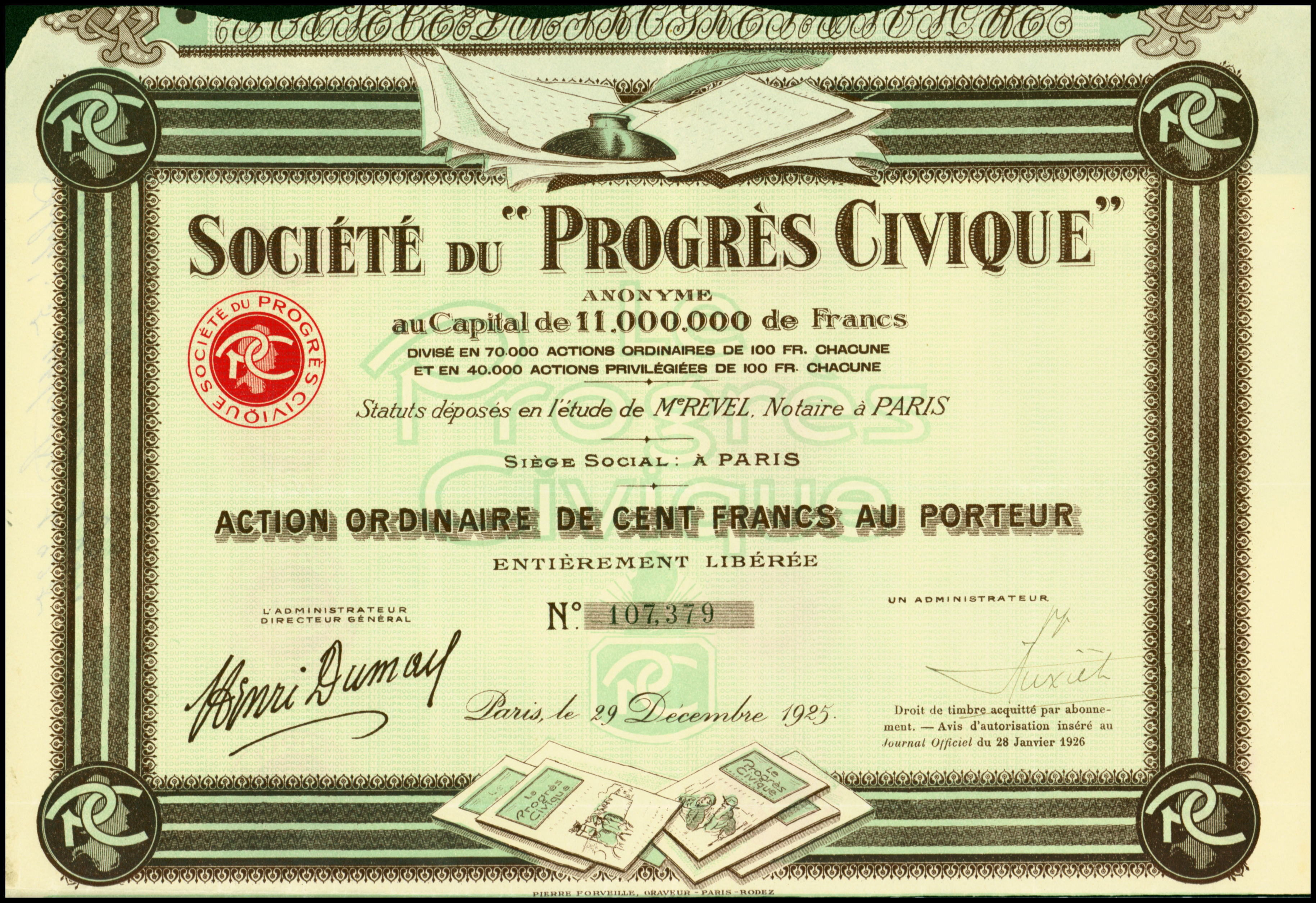 Share of the Société du Progrès Civique, issued 29. December 1925